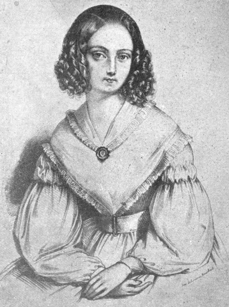 Louise Colet-Revoil